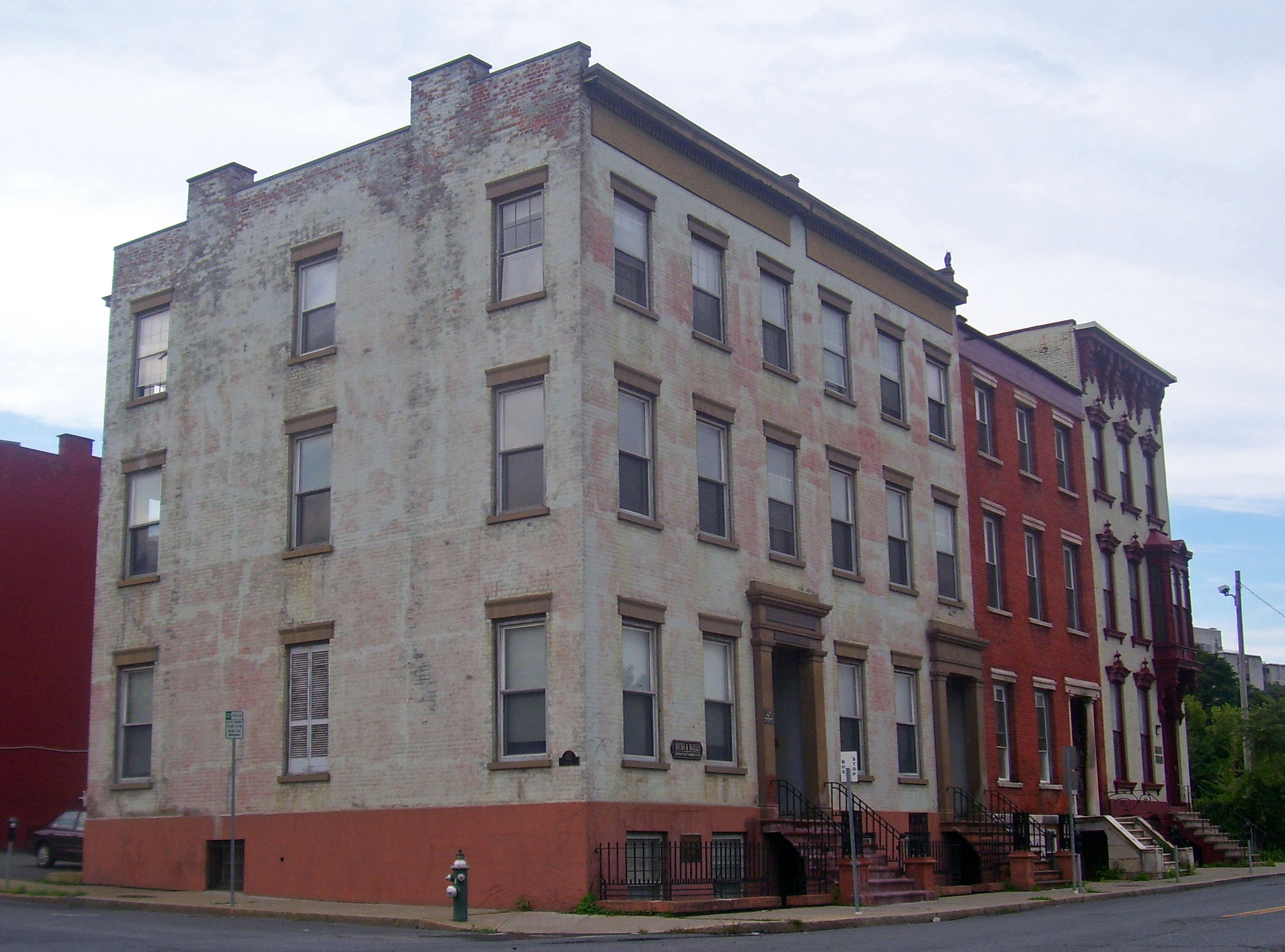 Buildings at 744-750 Broadway, Albany, NY, USA. Only remnant of long rows that once existed in this part of town